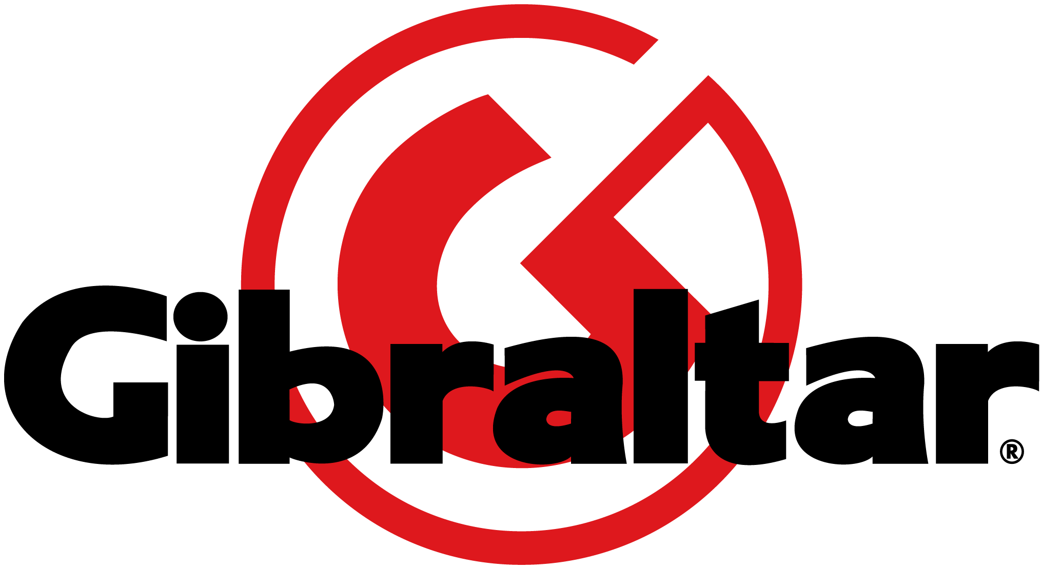 Brand Logo